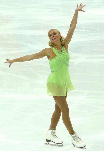 Katarina Gerboldt during her short programm at the 2007 Cup of Russia